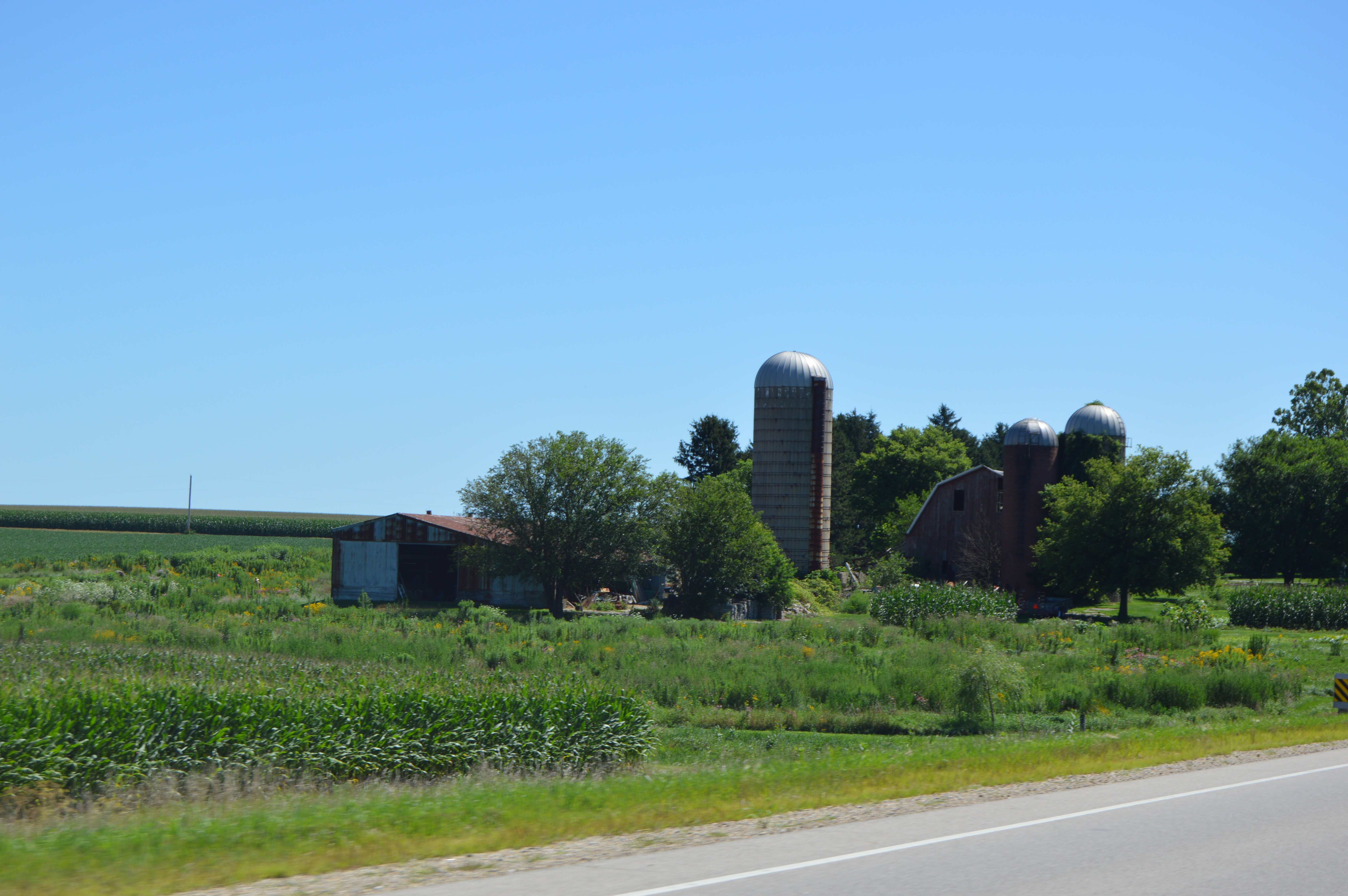 Building at a farm in Metamora Township, Woodford County, Illinois, United States, located east of Metamora on Illinois Route 116 just west of Road 1200 East.